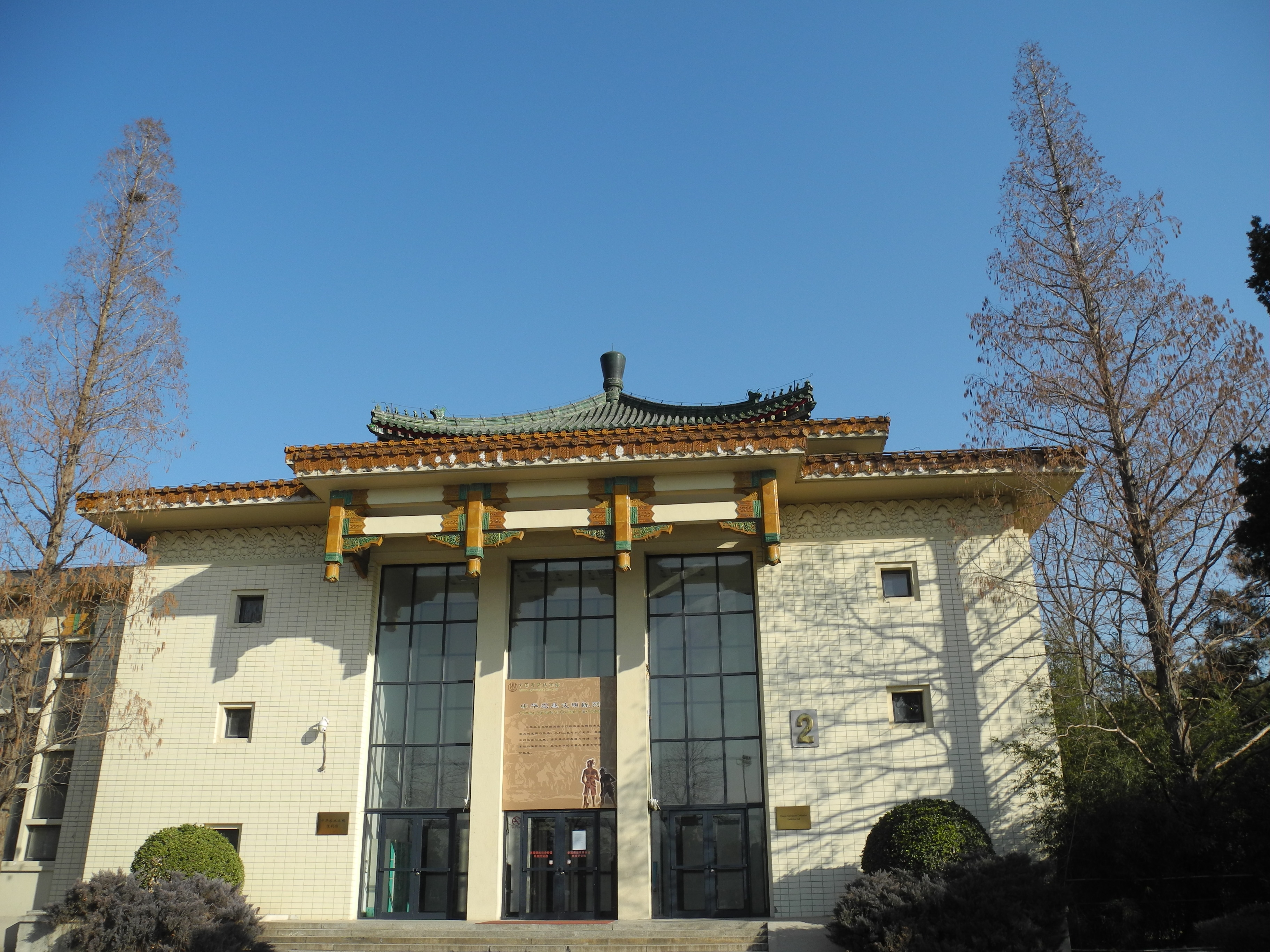 The China Agricultural Museum in Beijing, PR China (2017)